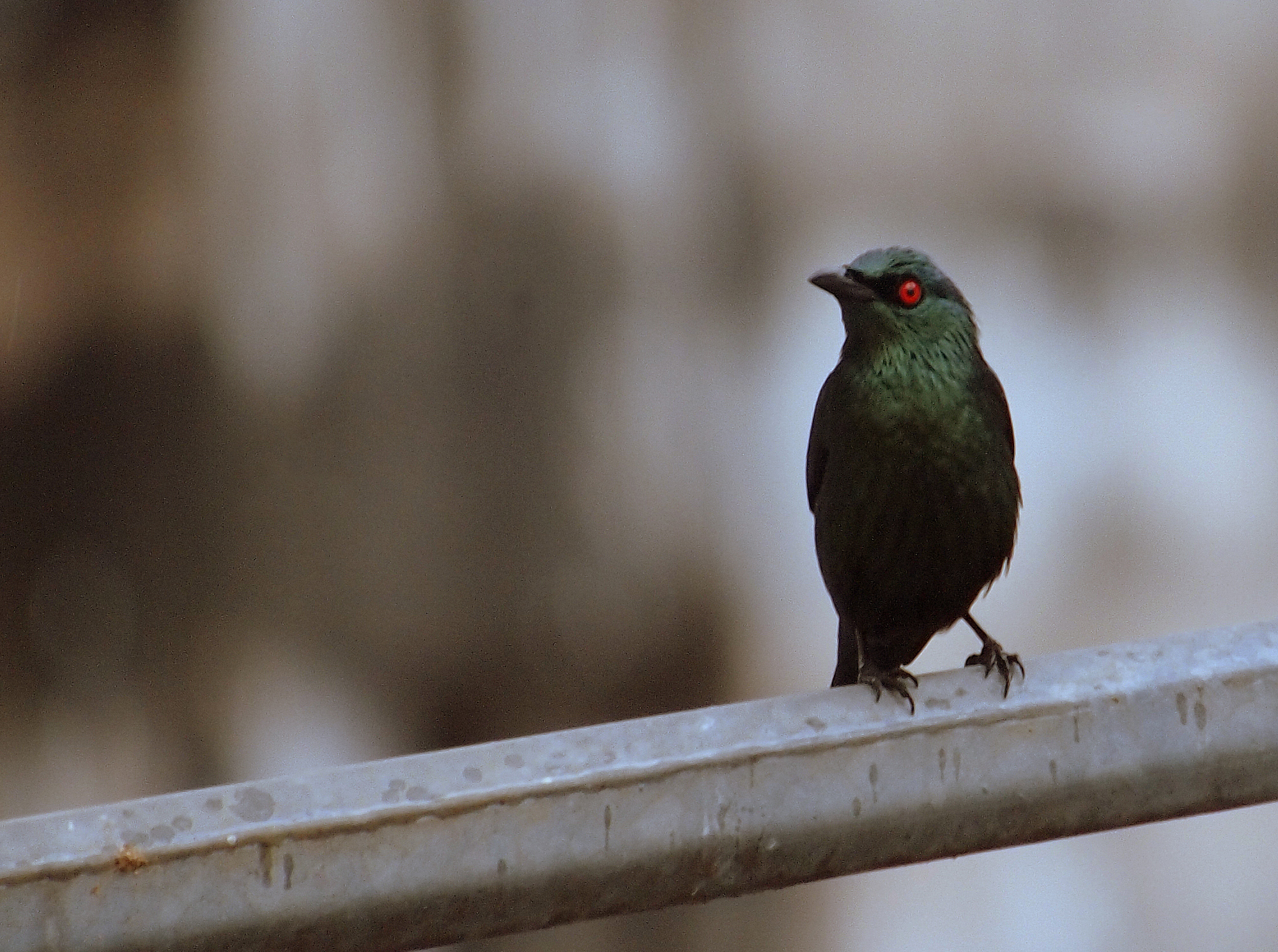 Aplonis panayensis in Malaysia